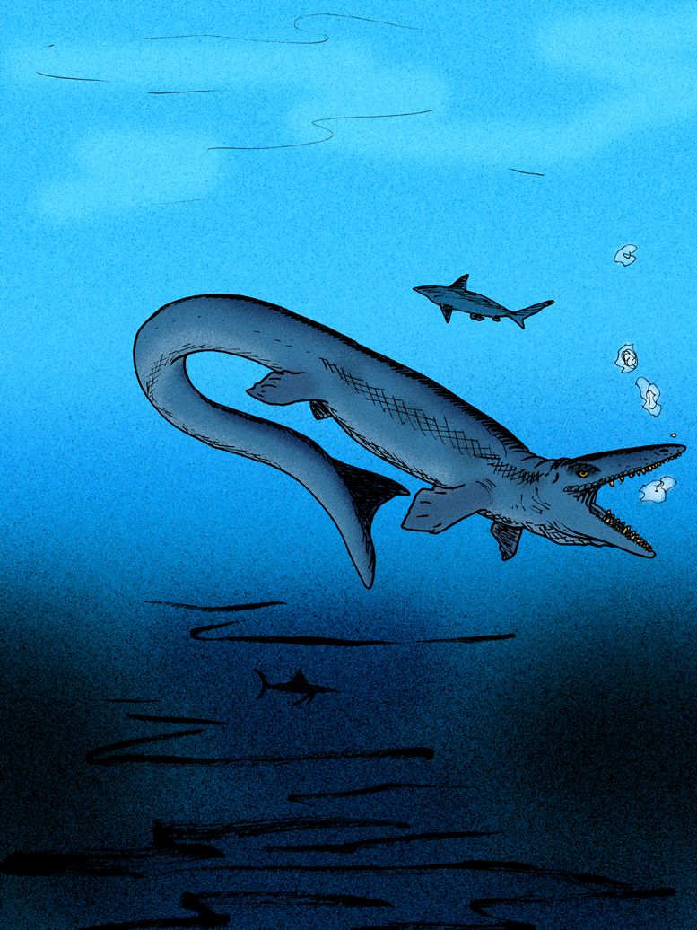 Reconstruction of the Late Cretaceous tylosaurine mosasaur lizard, Kaikaifilu hervei, of Late Cretaceous Antarctica.